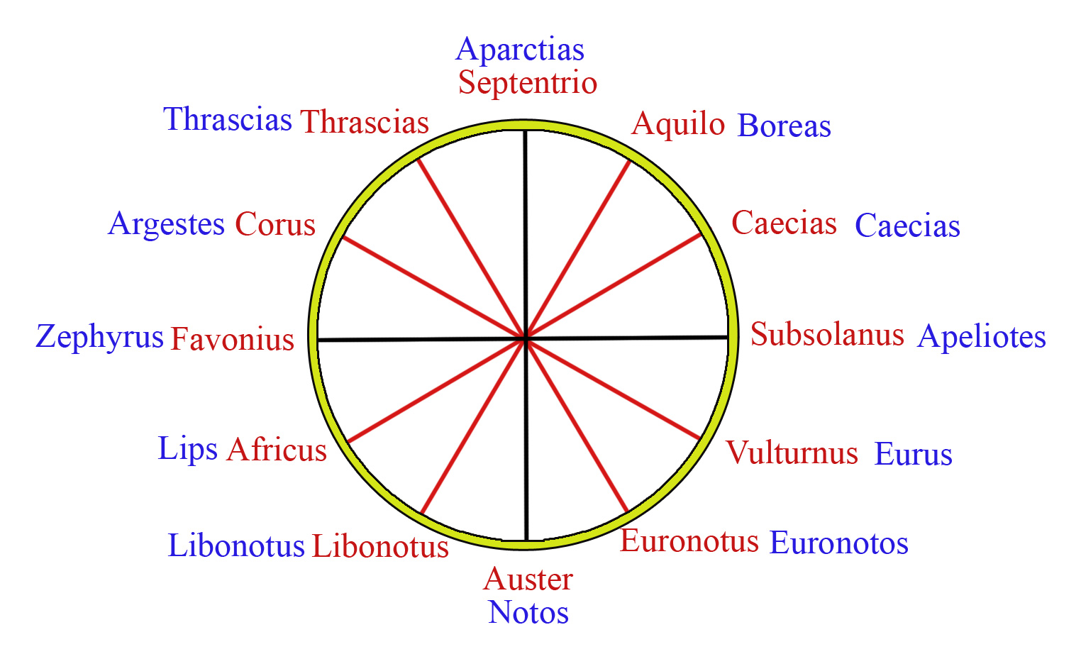 Depiction of an ancient Roman 12-wind compass rose, following the nomenclature of Seneca (c. 65 CE). Latin names are in red, corresponding Greek names in blue. For simplicity, this depiction assumes that winds are at 30-degree angles on a compass rose.